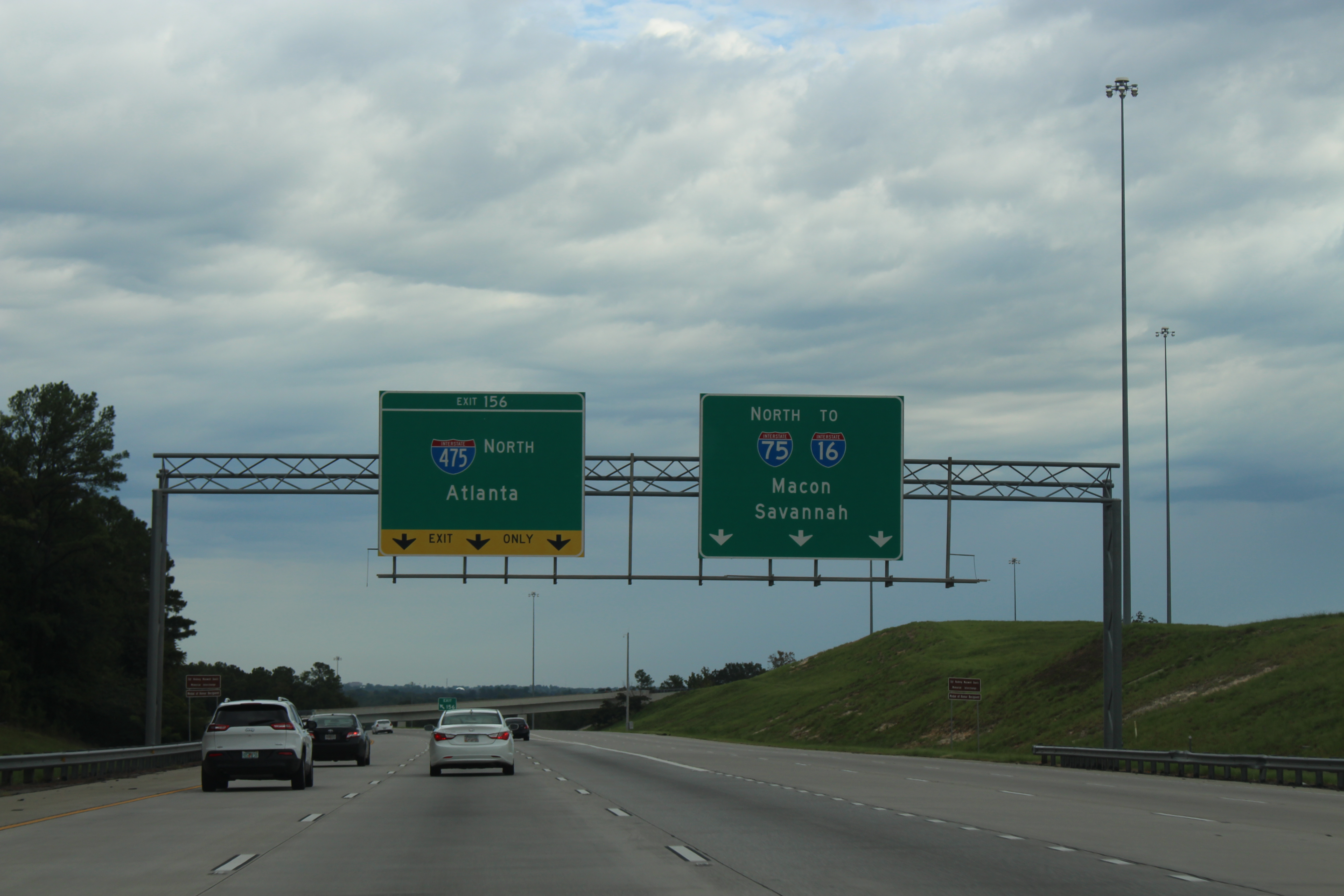 Georgia I75nb exit 156, Macon-Bibb County, Georgia